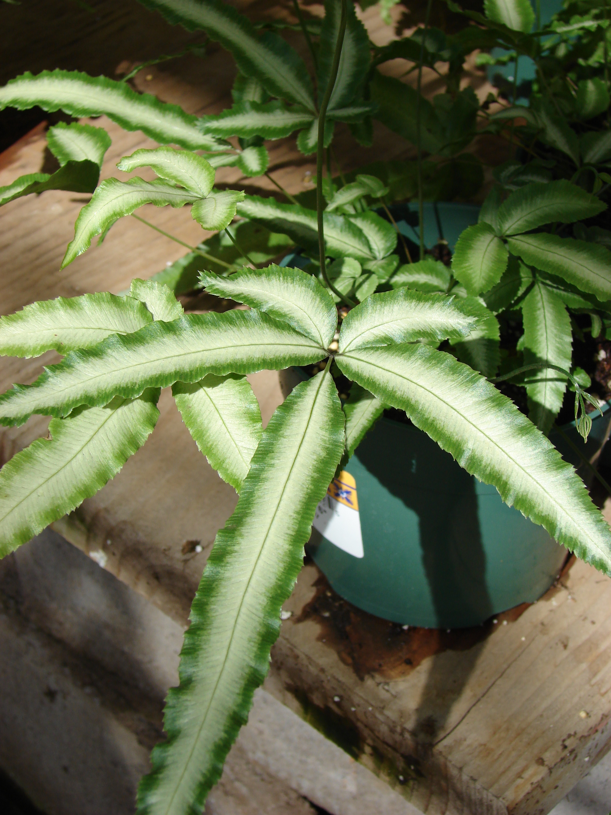 Pteris ensiformis (habit). Location: Maui, Home Depot Nursery Kahului